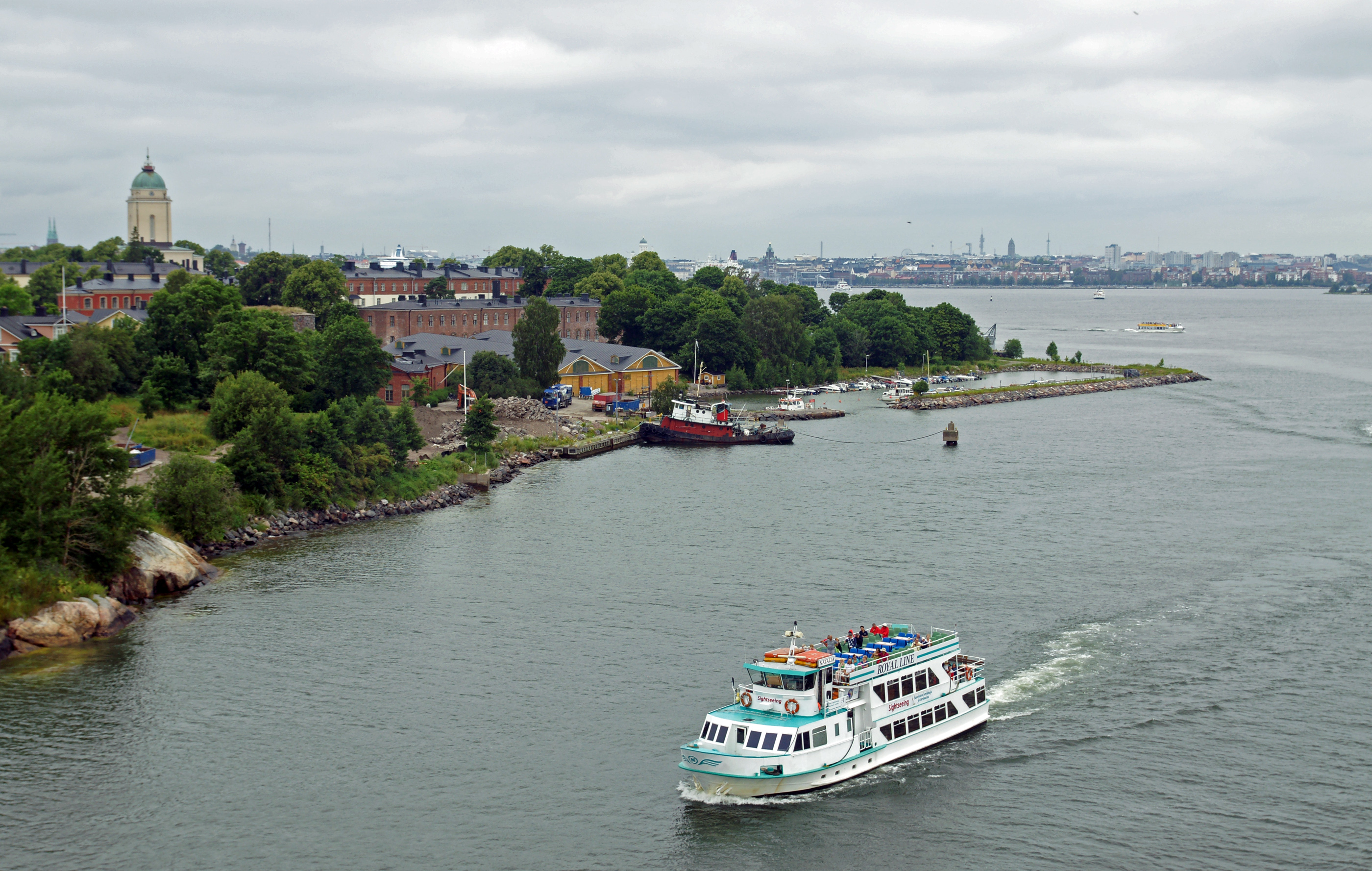 Suomenlinna